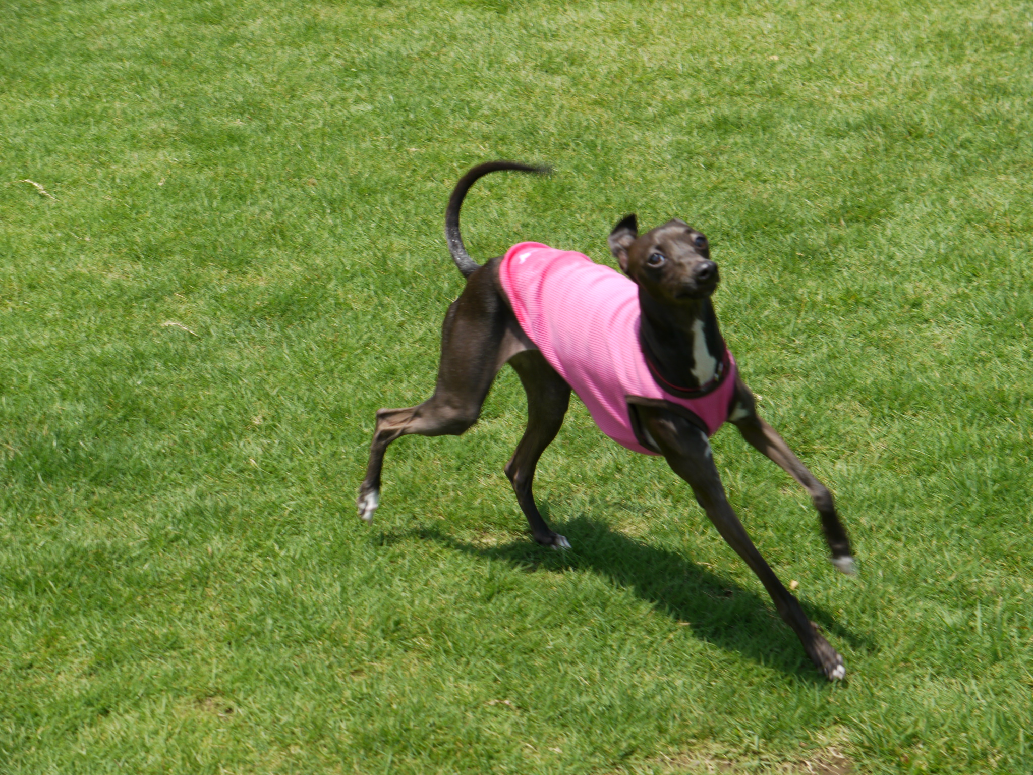 italian greyhound capu-chan.jpg